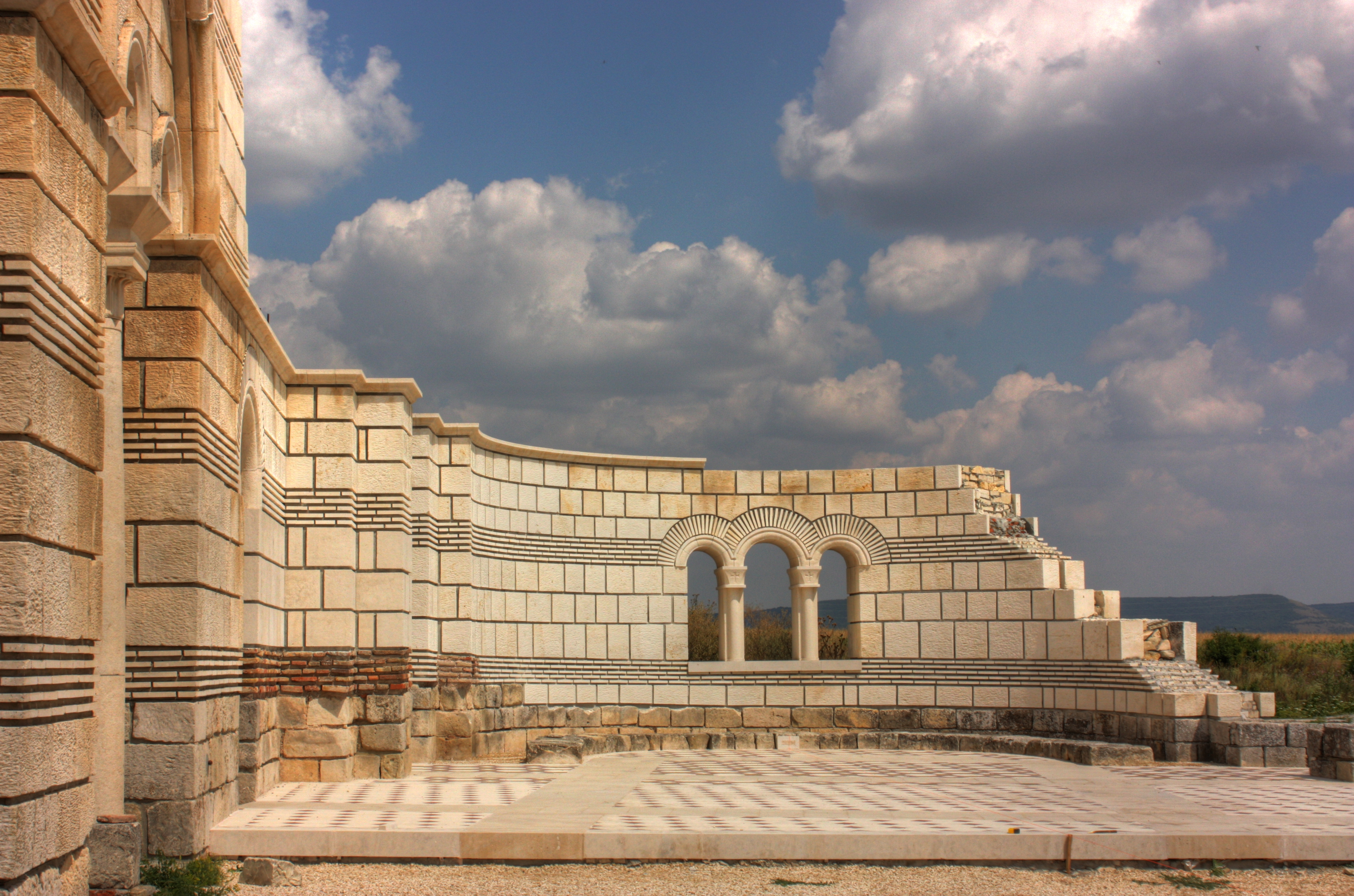 The Great Basilica at the Outer Town of Pliska, the first Bulgarian capital (partial reconstruction). The Great Basilica of Pliska...